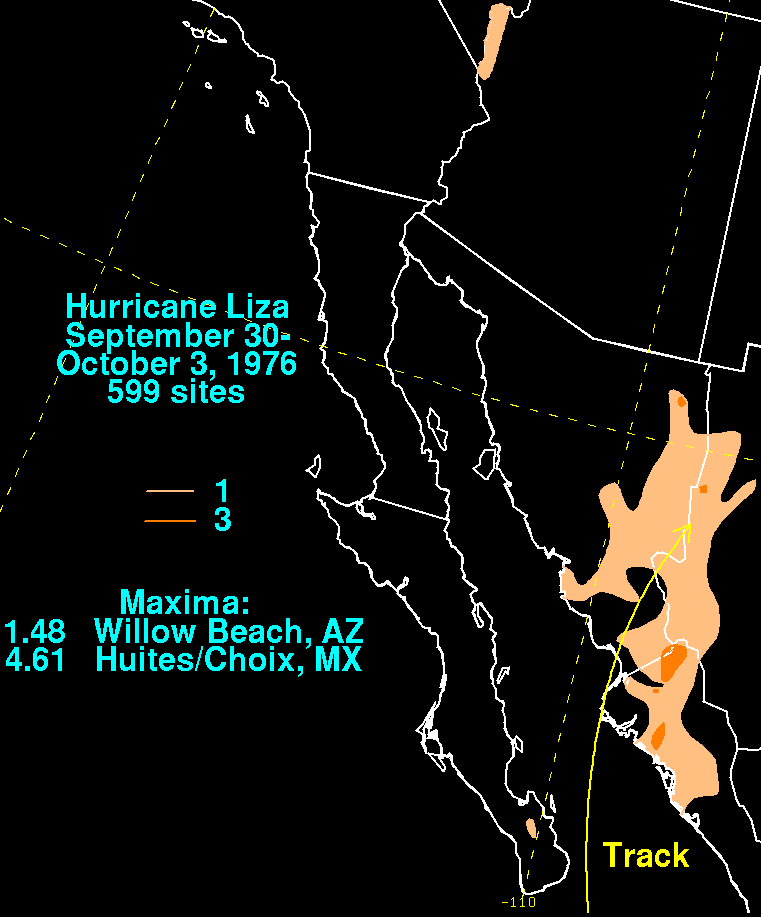 Storm total rainfall map of Hurricane Liza during September and October 1971.